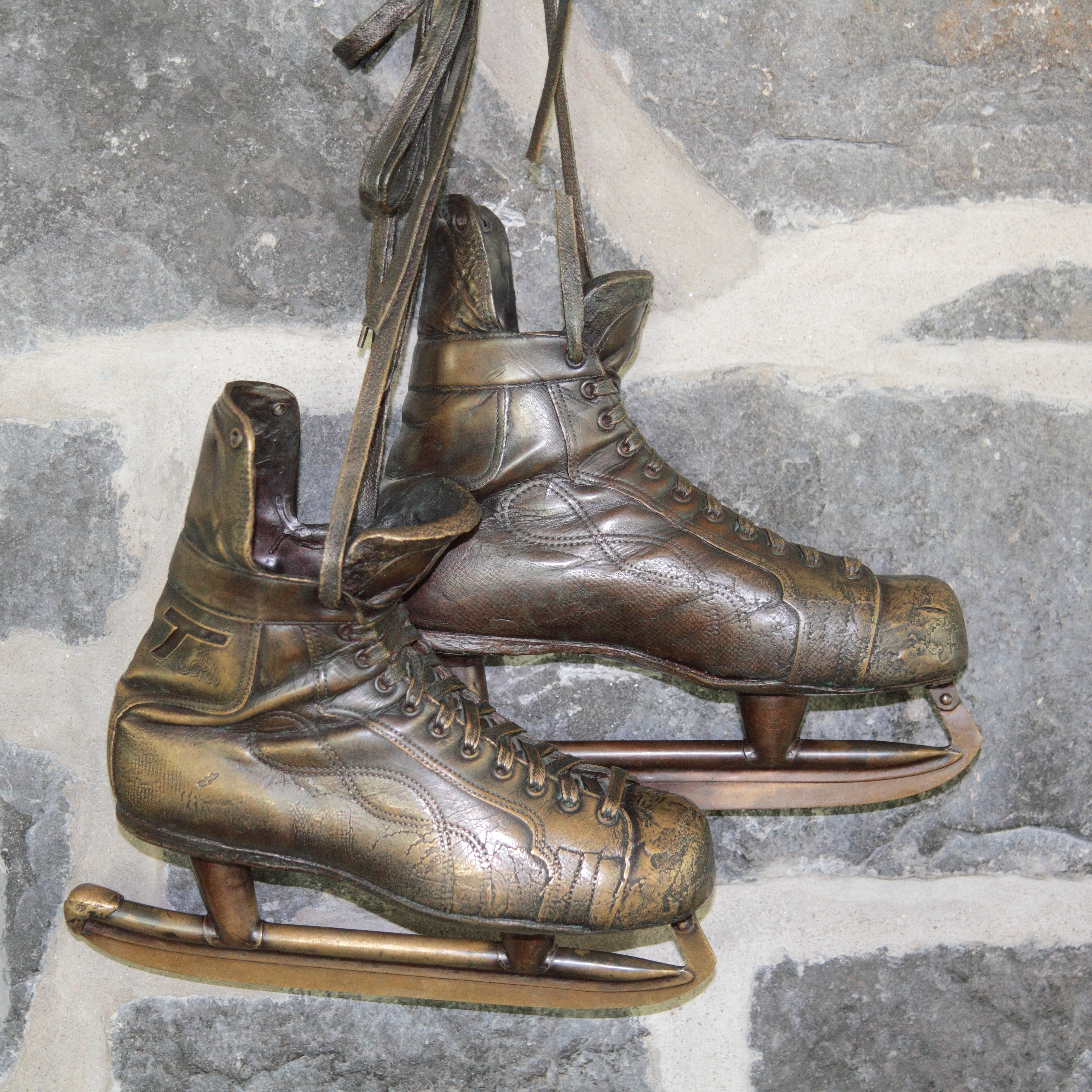 CCM Tackaberry skates worn by Jean Béliveau when he scored his 500th goal on February 11 1971. These are exposed at the lac aux Castors Pavilion, Mount Royal, Quebec, Canada.